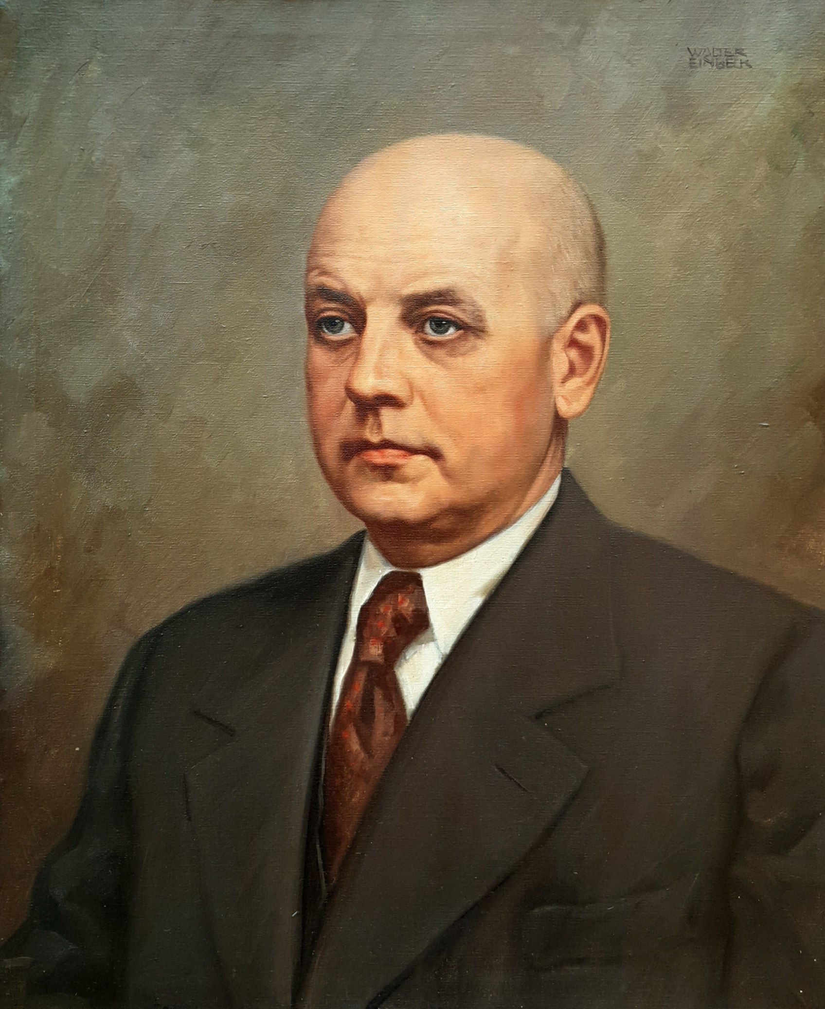 Wilhelm Benze (1890-1951)